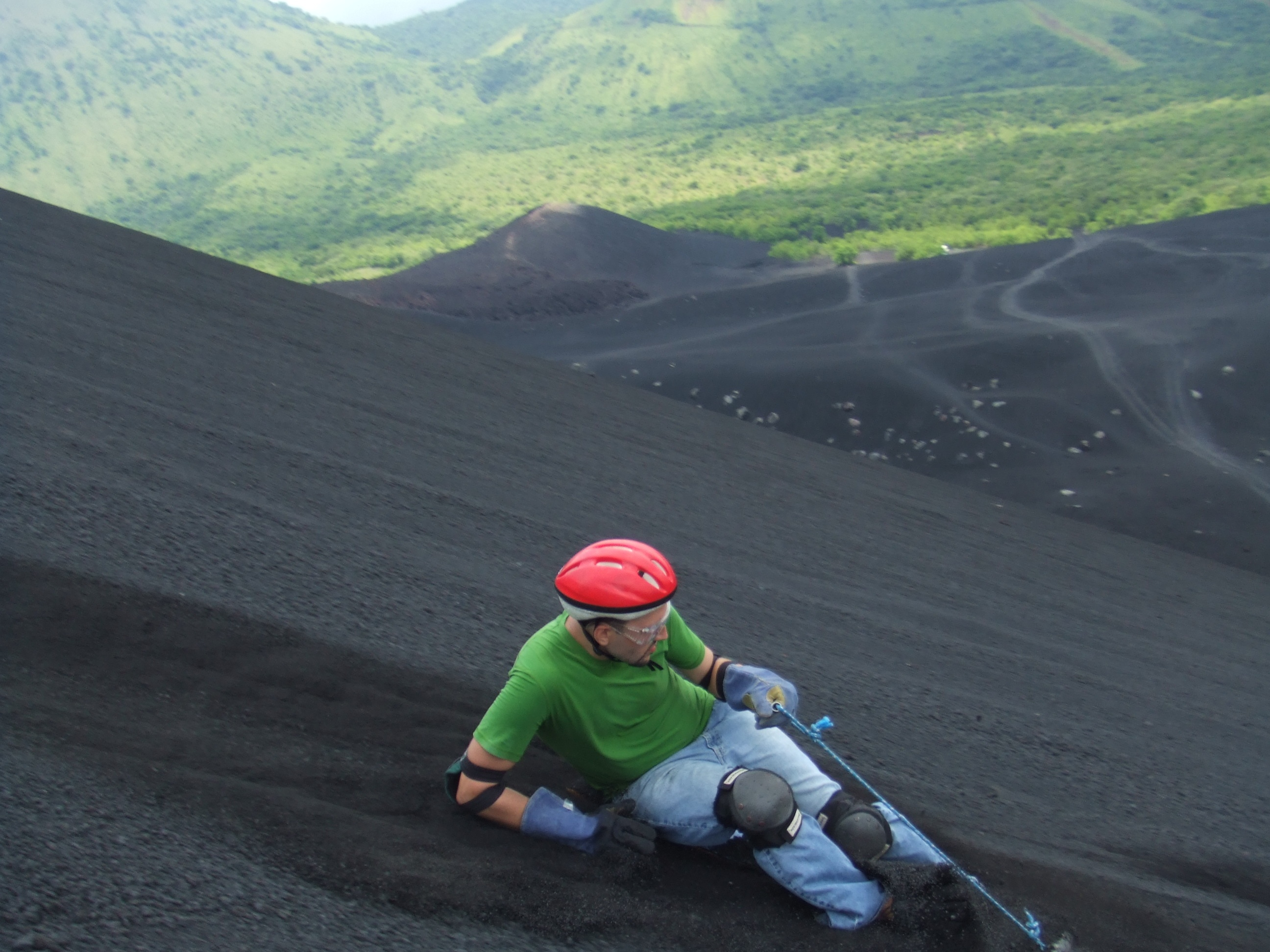 Volcano Surfing / Volcano Boarding down Cerro Negro in Leon, Nicararga